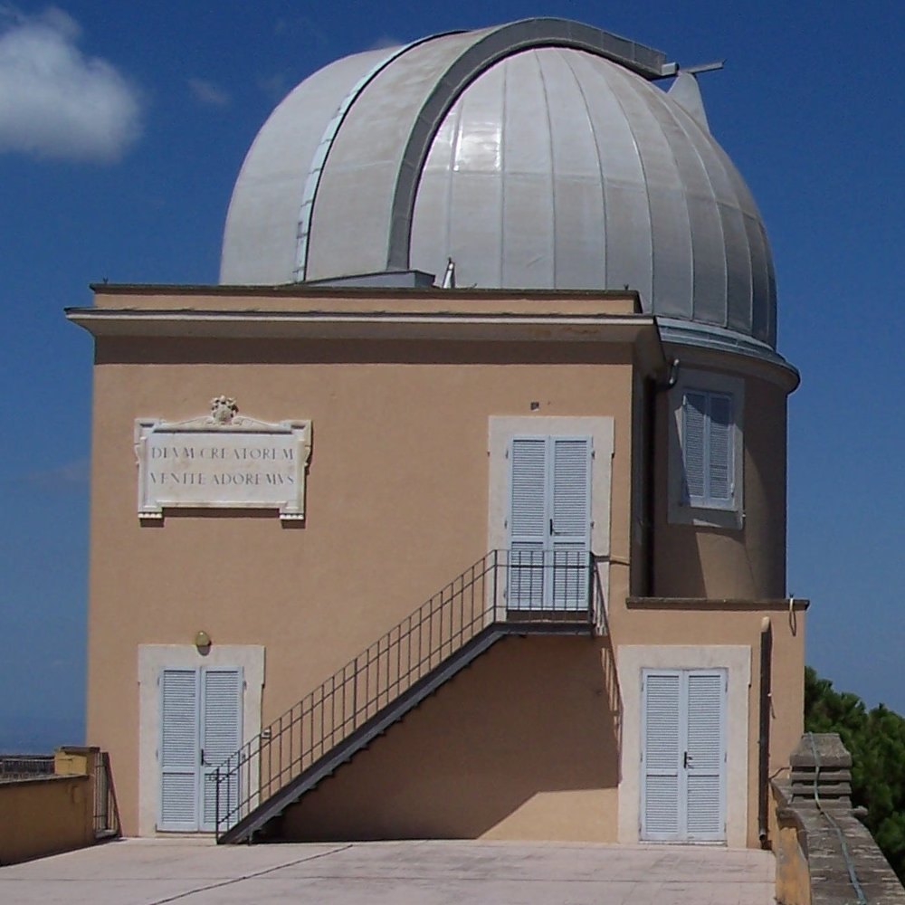 Vatican Observatory Telescope on the roof of the Ponticial Palace in Castel Gandolfo